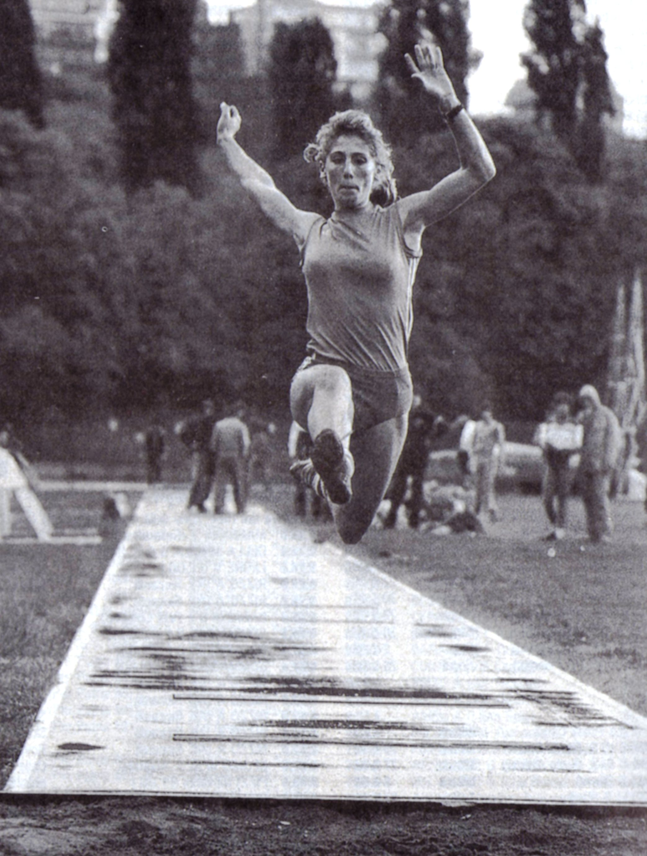 Antonella Capriotti in a competition in Italy on 1970